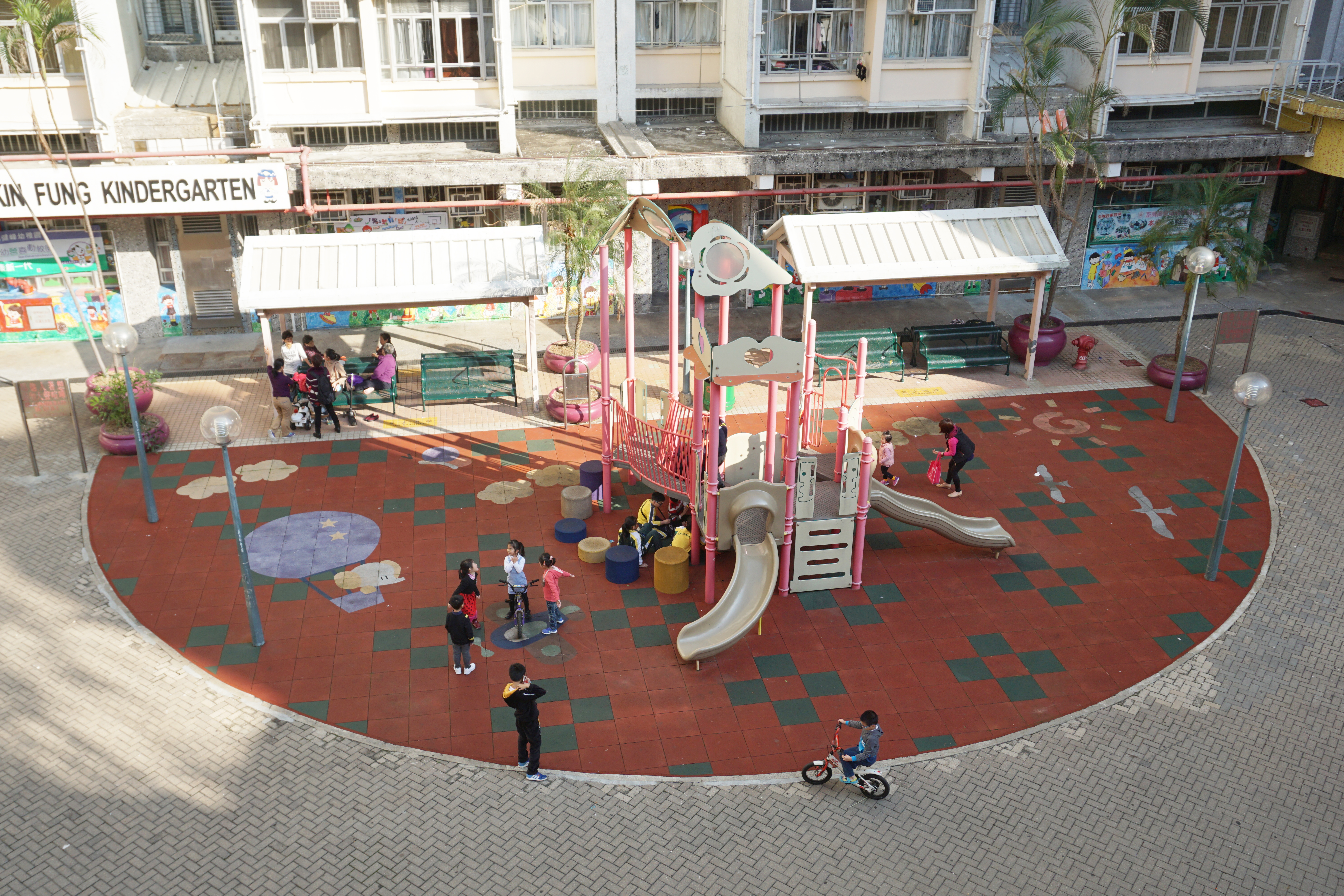 On Yam Estate in Shek Yam, Hong Kong.